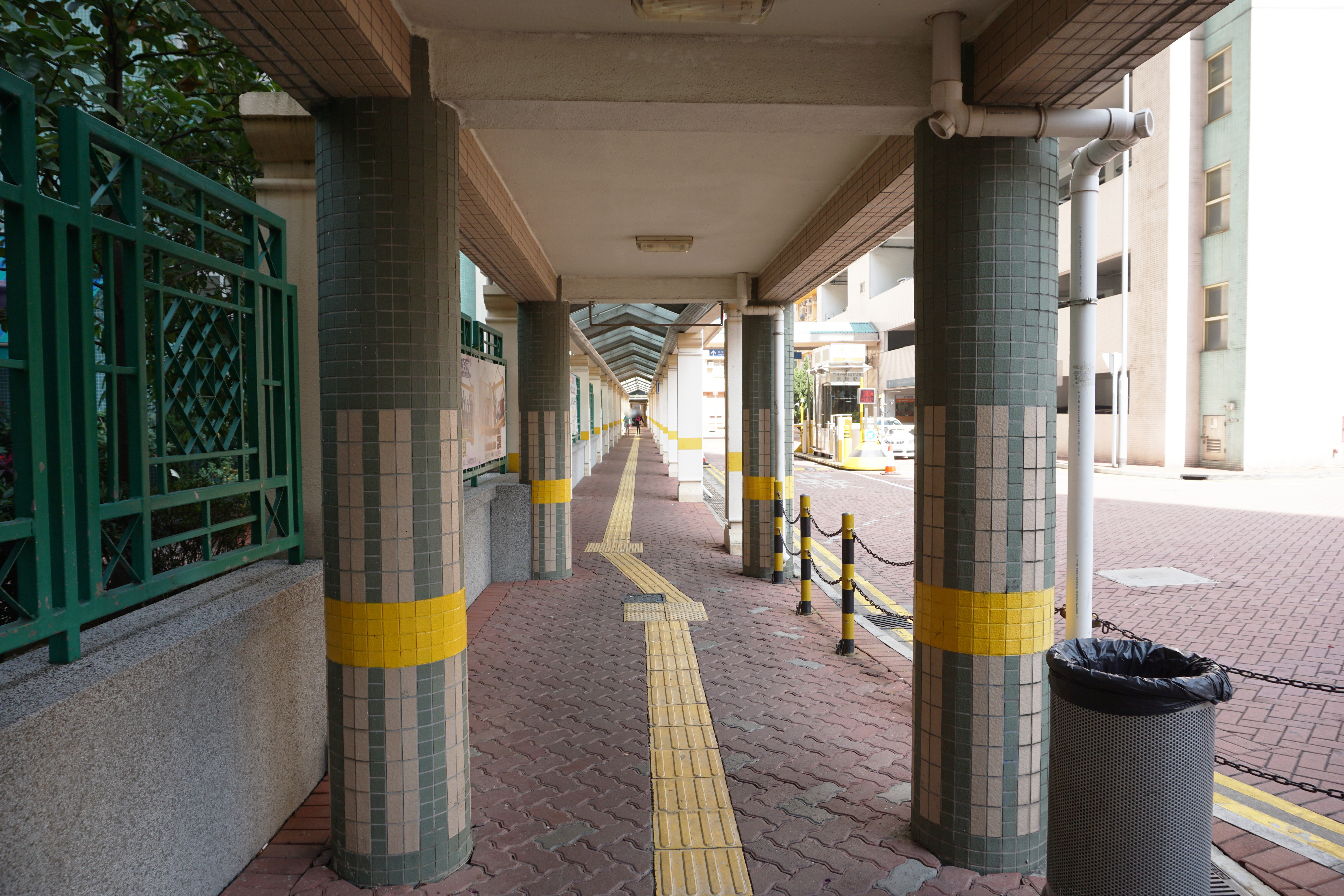 Tin Yan Estate in Tin Shui Wai, Hong Kong.